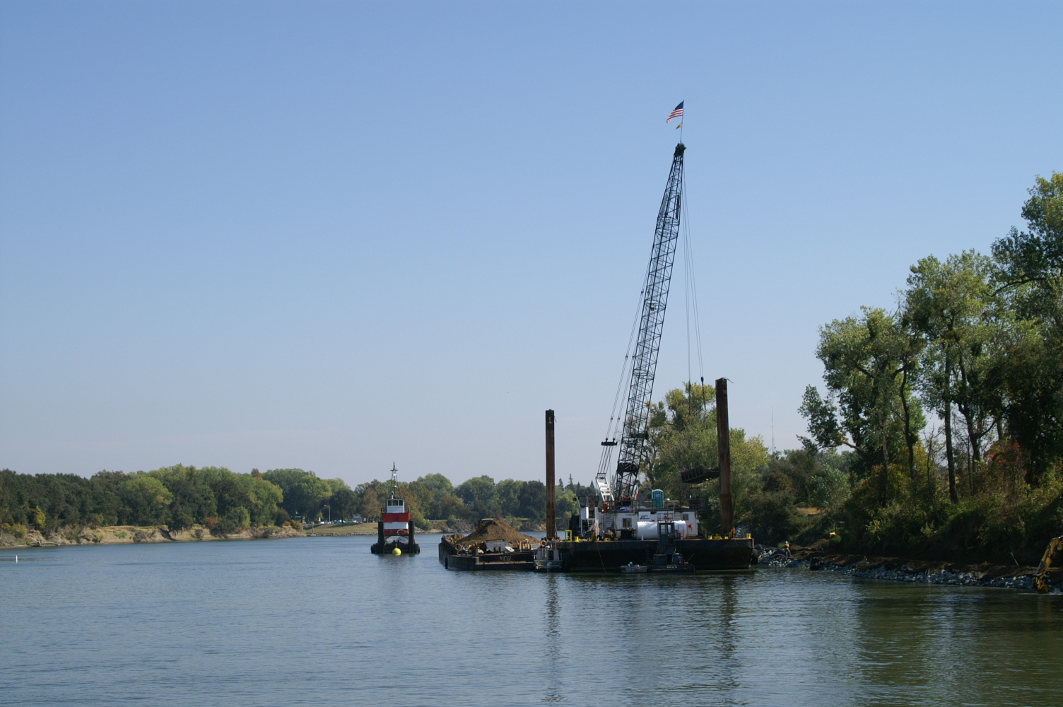 West Sacramento, CA: Riverbank Stabilization, 2006